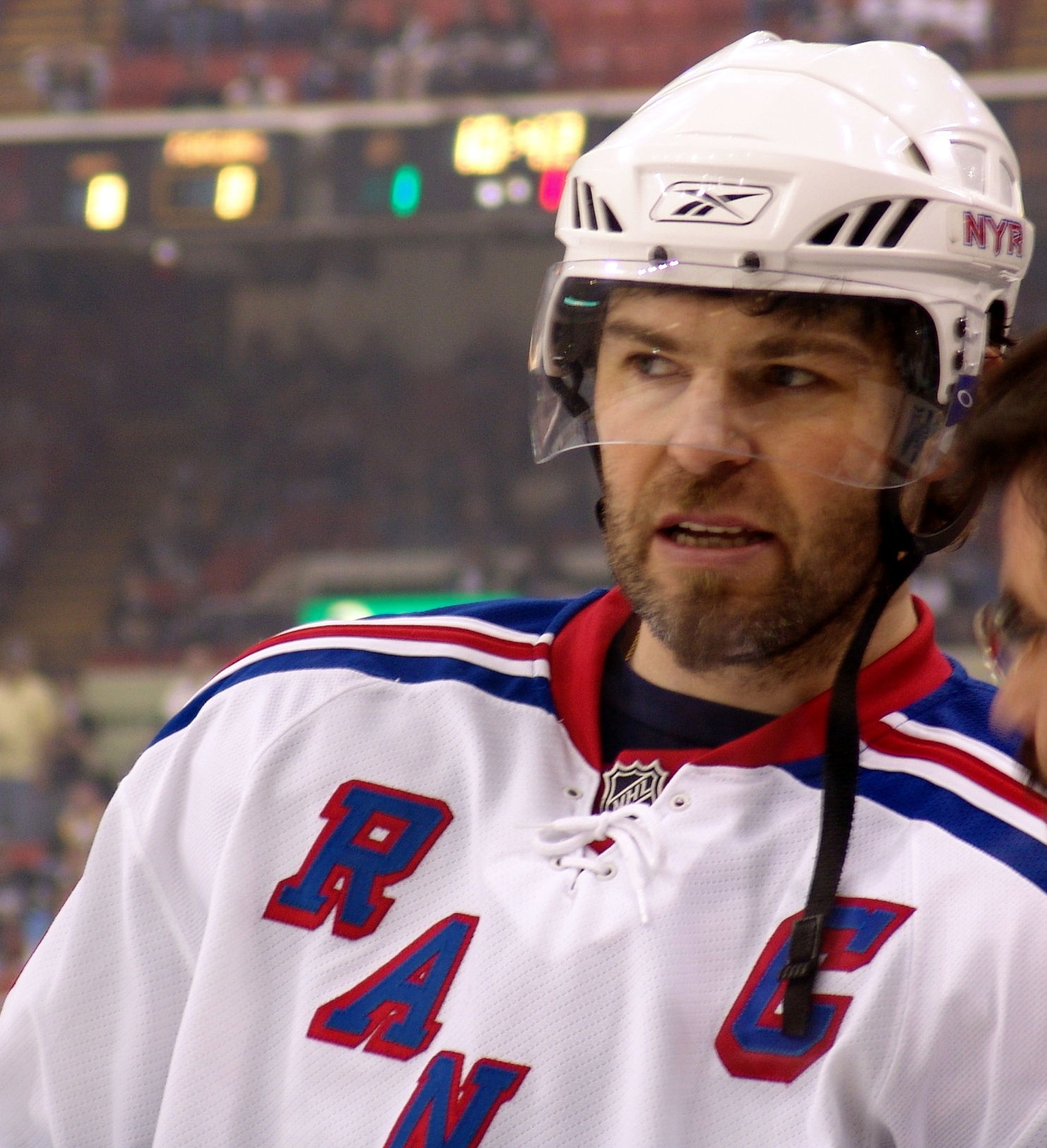 Jaromir Jagr prior to a May 4, 2008 playoff game between the New York Rangers and Pittsburgh Penguins at Mellon Arena in Pittsburgh, PA. The 2-1 overtime loss eliminated the Rangers in five games. It would be Jagr's final game at The Igloo.